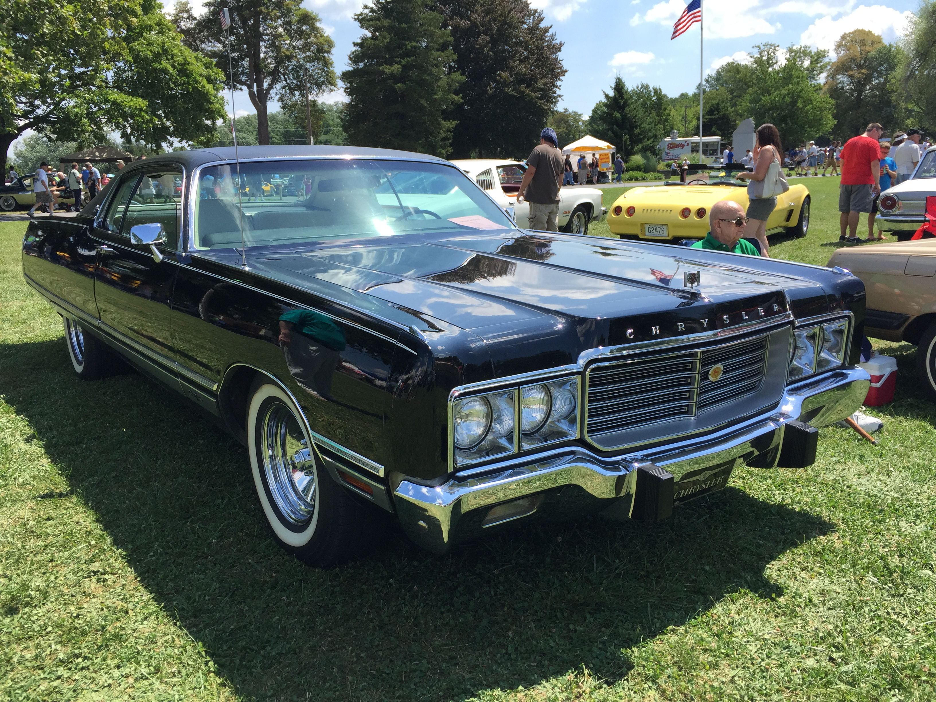 1973 Chrysler New Yorker, a full-sized two-door hardtop (no center B-pillar) finished in black with a white leather interior. Picture taken at the 52nd Annual "Das Awkscht Fescht" antique car show in Macungie, Pennsylvania.